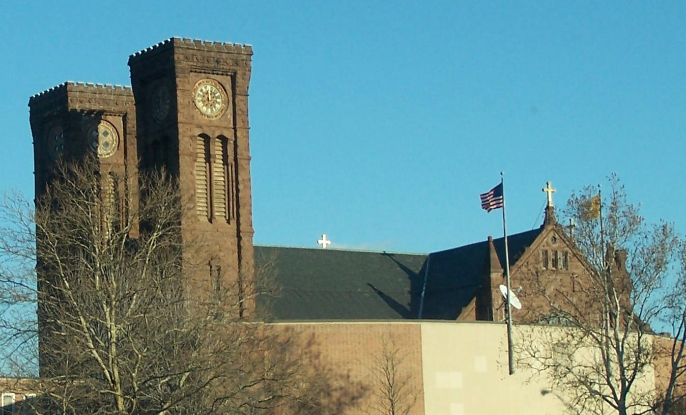 Cathedral of SS. Peter and Paul in Providence, Rhode Island, USA